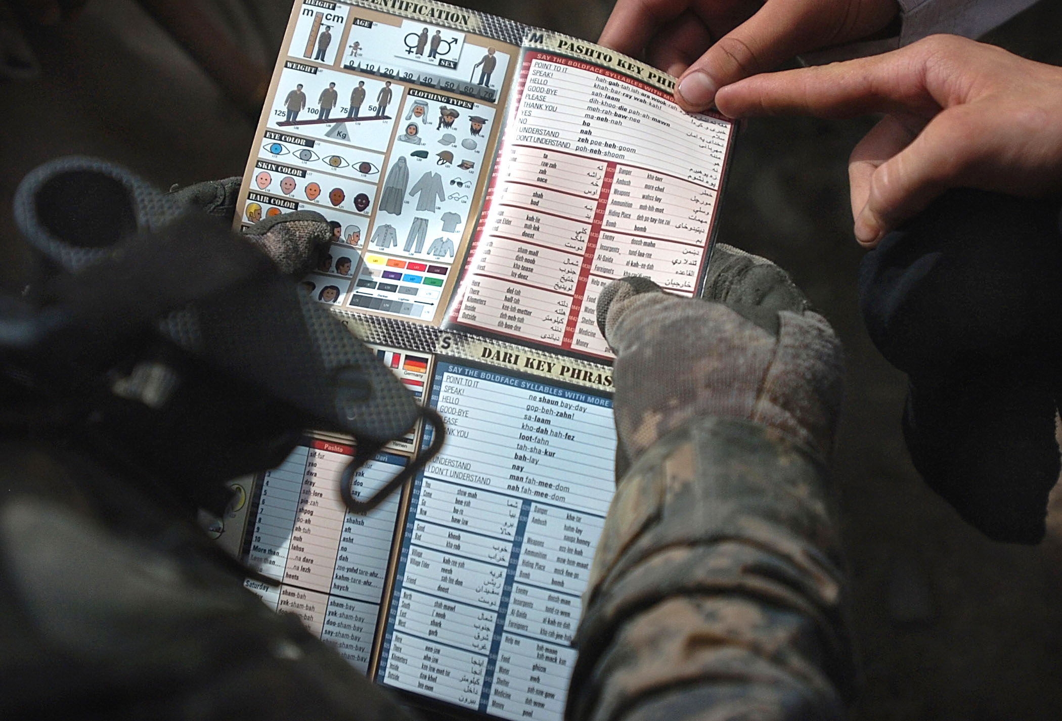 U.S. Army Staff Sgt. Jeremy Torres-Cortes points to a language translation card with the phrase “point to it” while patrolling the Wadawu valley during Operation Silver Creek in Nuristan province, Afghanistan, Aug. 7, 2009. Torres-Cortes is assigned to the 4th Infantry Division’s Headquarters Battery, 2nd Battalion, 77th Field Artillery Regiment, 4th Brigade Combat Team. U.S. troops are issued the cards, which offer basic phrases in Afghanistan's native languages, before deploying.